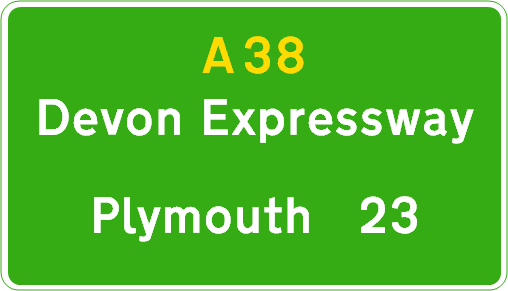 A typical route confirmation sign which could be seen on the A38 Devon Expressway